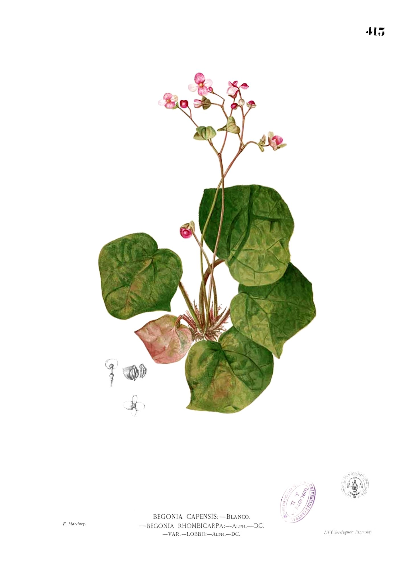 Plate from book